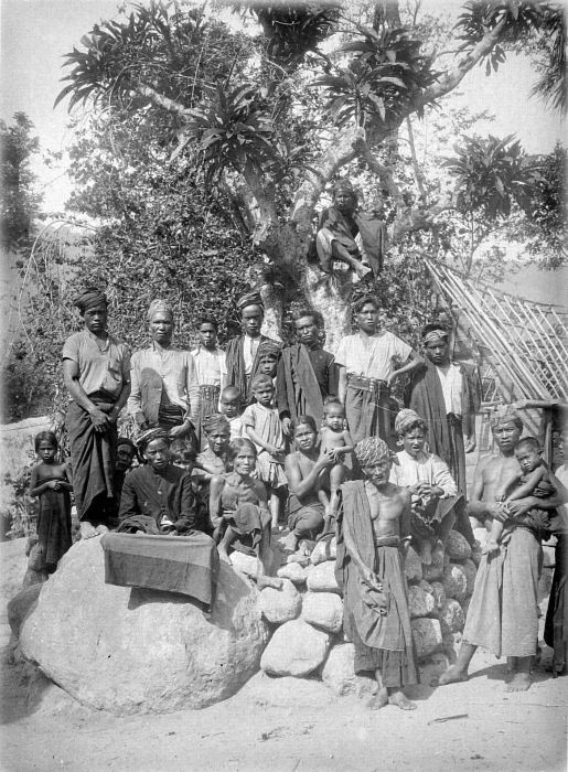 A group of Toba-Batak people, Sumatra.